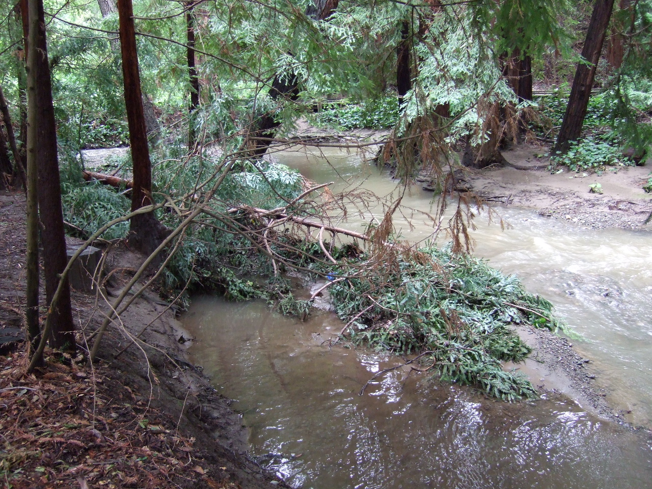 Fallen Redwood tree in Adobe Creek, Los Altos, California.